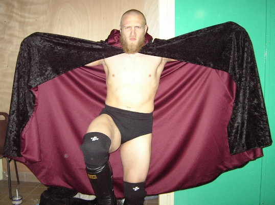 I love Bryan Danielson. He for some reason reminds me of Benoit and Hart when in the ring. At this point, where i'm still kinda ehhh about the fake punching, his shit I can still watch, get into, and enjoy. Still, he looks like one wacky bastard in this pic. I need to see some of his work from this period, if only so I can get the full effect of AmDrag doing his crazy cape entrance. Professional wrestler Bryan Danielson posing for a photo in July 2004.